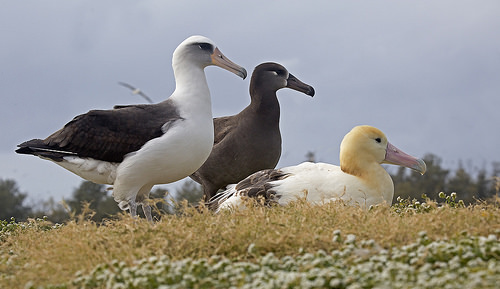 Laysan albatross (left), black-footed albatross (center) and short-tailed albatross (right), face into the wind on Midway Atoll NWR in a family portrait moment of all the albatross species that range exclusively in the North Pacific. Midway Atoll is the world's largest nesting albatross colony and until recently hosts the only breeding pair of short-tailed albatross on the continent outside of several islands near Japan.